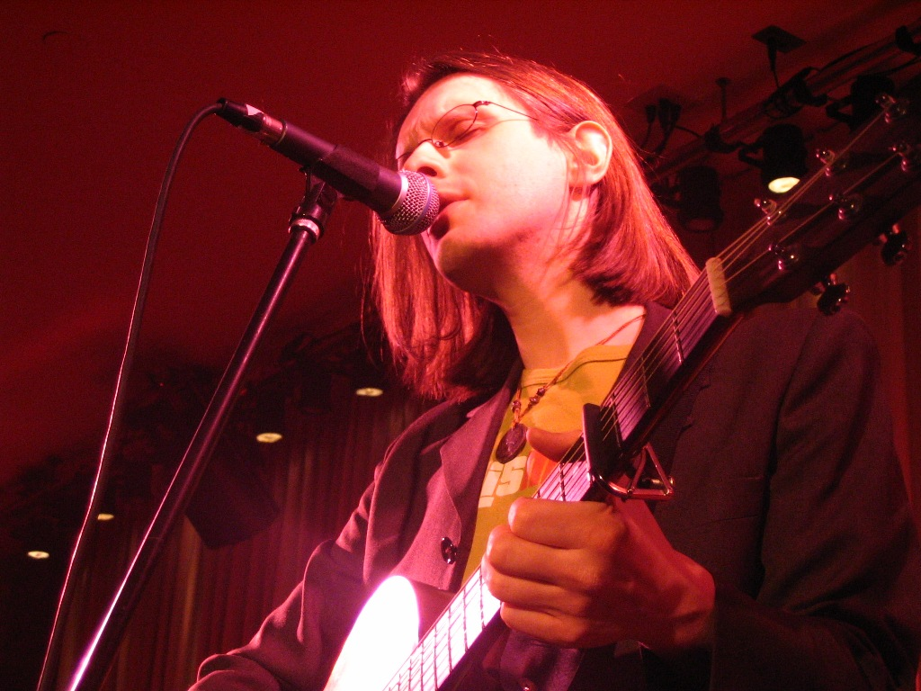 Steven Wilson started the show out with a solo acoustic set.